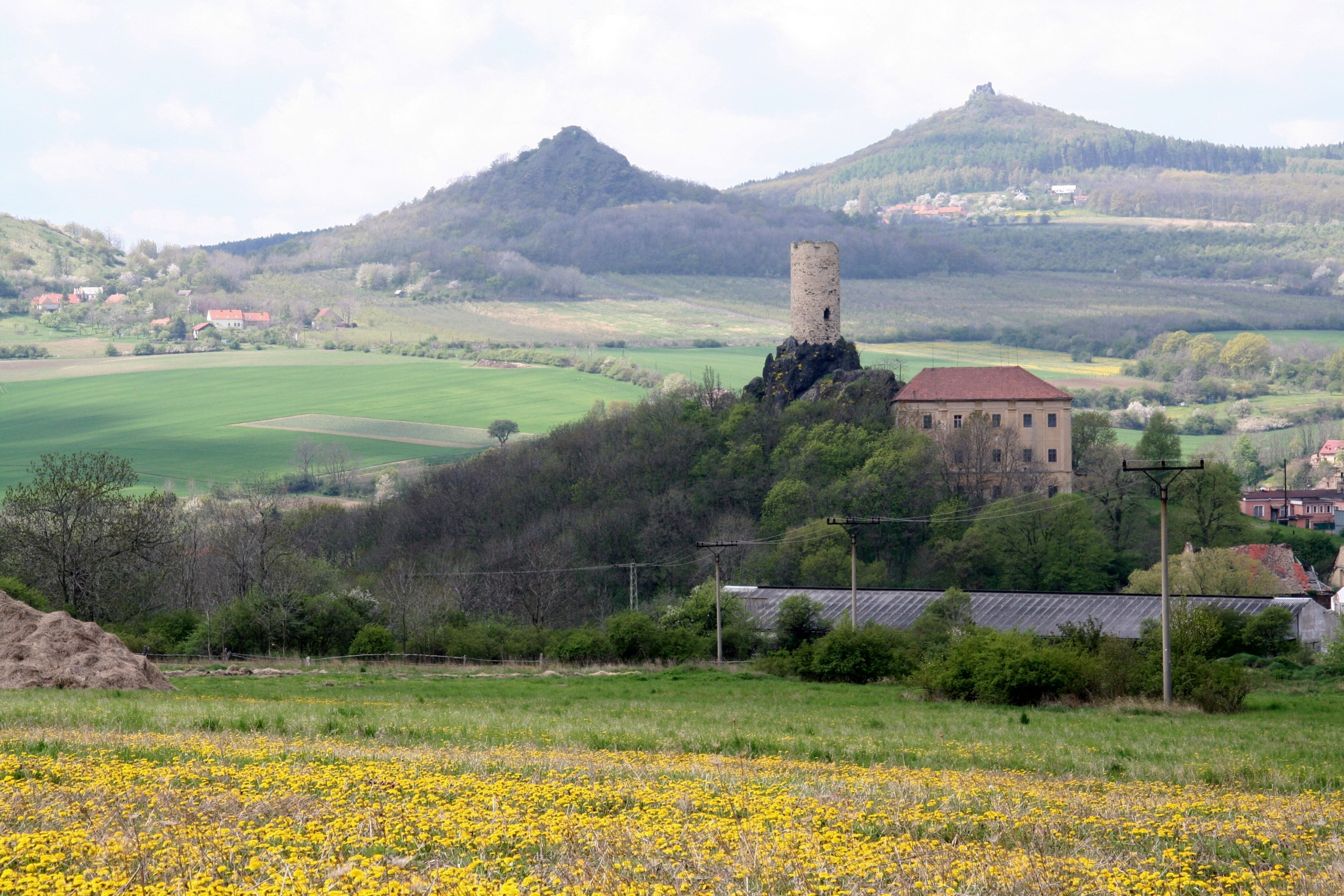 České středohoří, Czech Republic. A view from Sutom over Skalka Castle in Vlastislav towards WSW with hills of Plešivec (centre) and Oltářík (right) in the background.